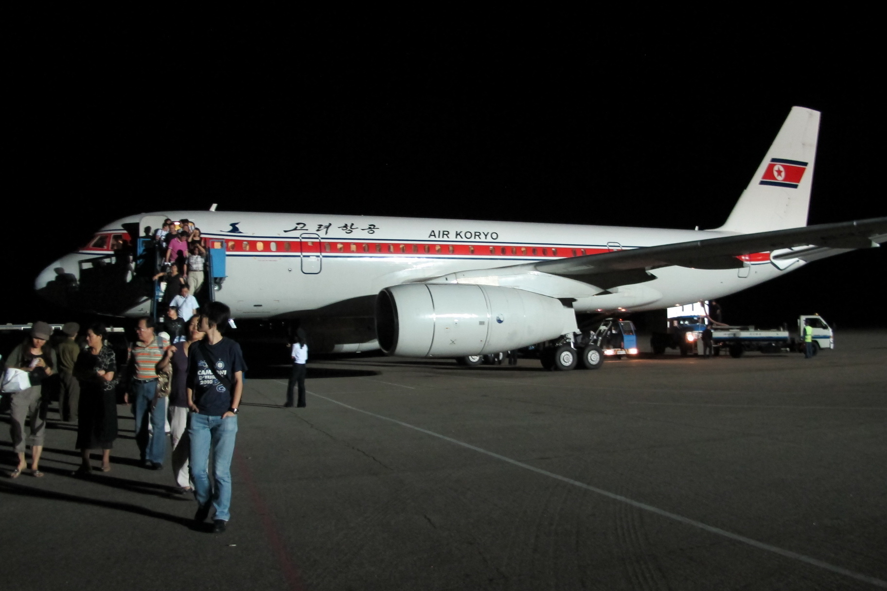 Air Koryo aeroplan @ Sunan Airport, North Korea